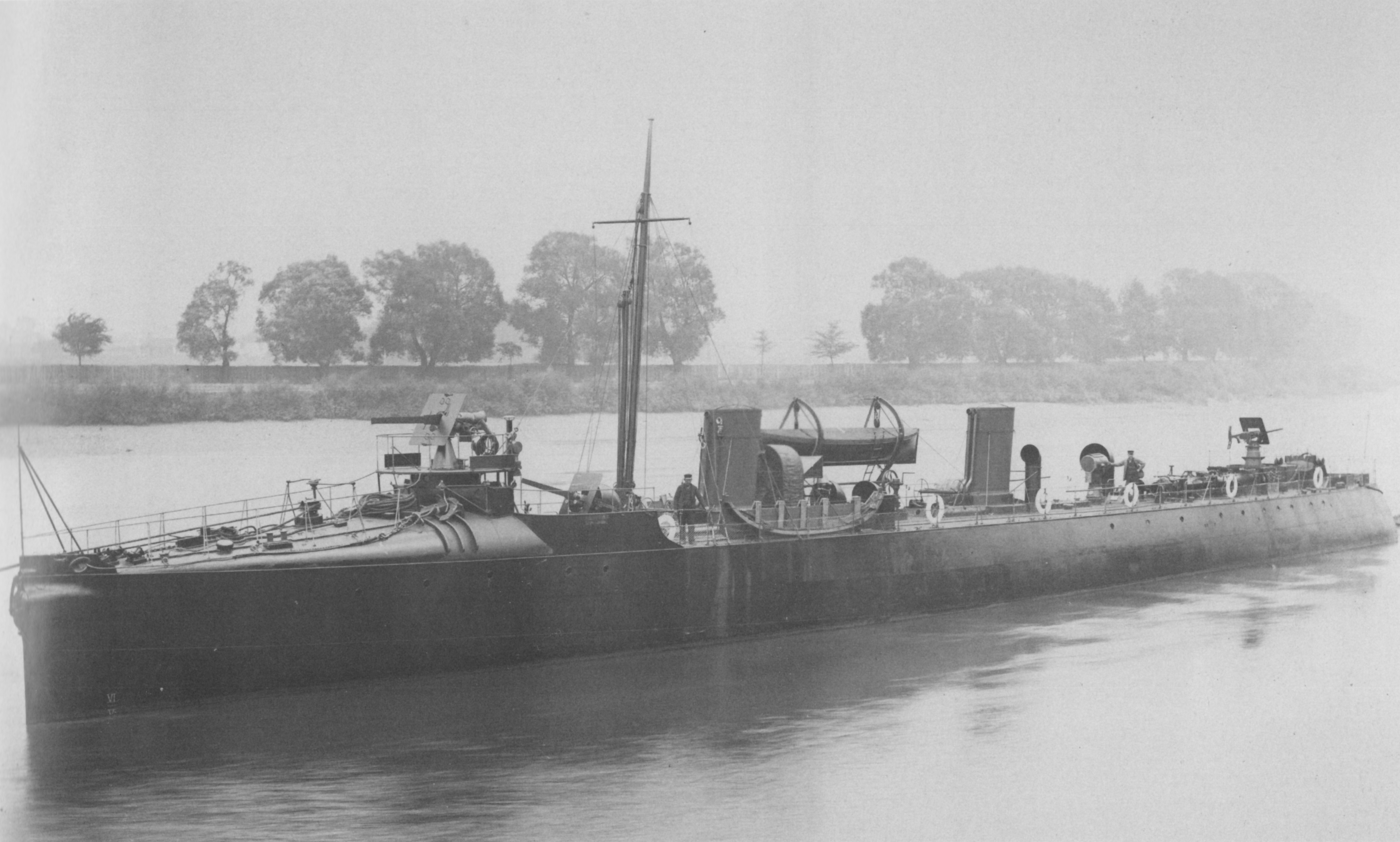 HMS Daring was the first torpedo-boat destroyer built by John I. Thornycroft at Chiswick.